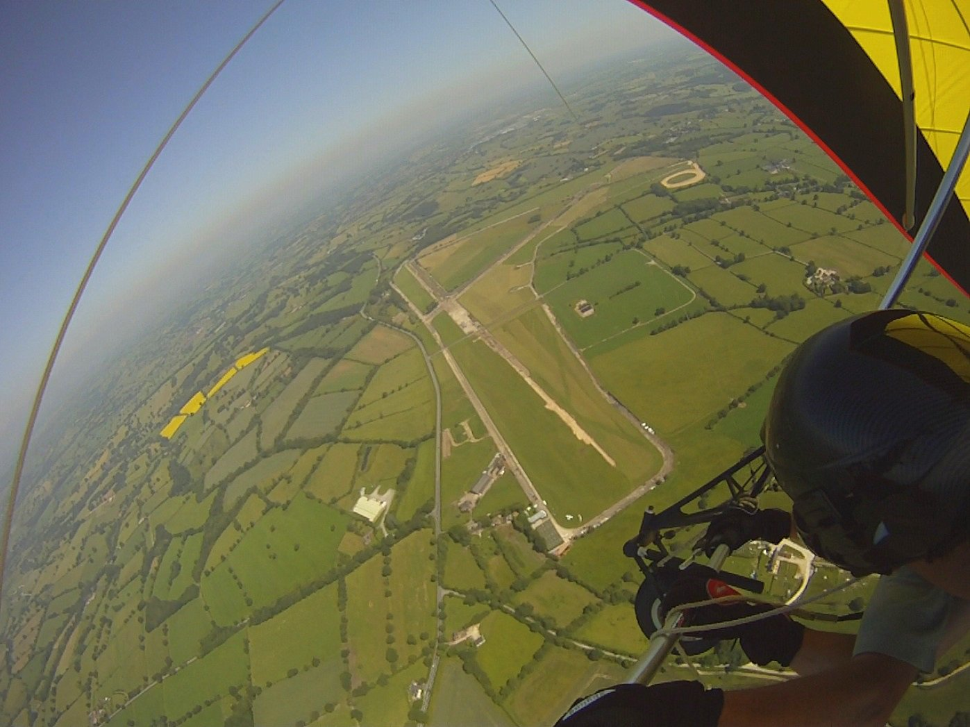 Darley Moor Airfield, Derbyshire. Photographed from above from the South from a hangglider.